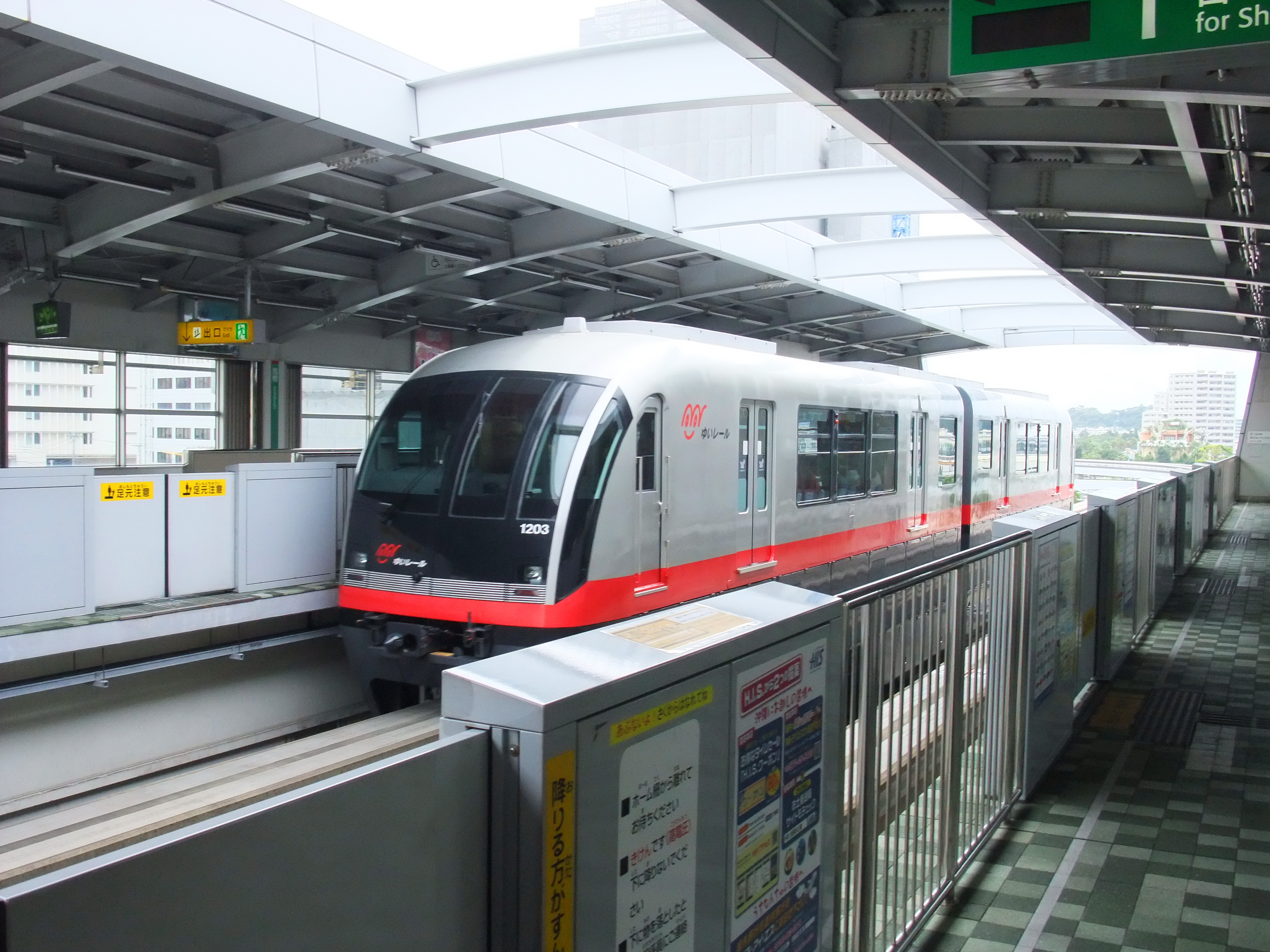 Okinawa Monorail 1000 series, number 1203+1103, at Asahibashi Station.